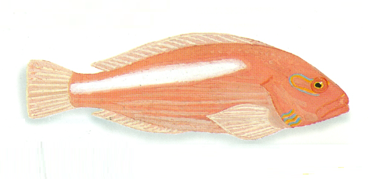 Paracirrhites_arcatus